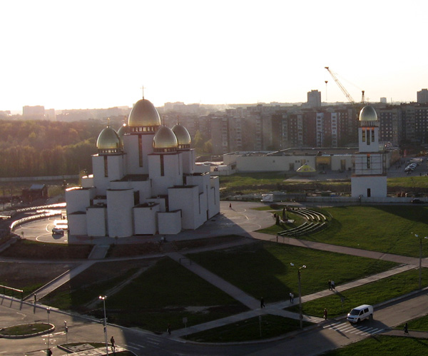 The Church of St.Mary birth in Lviv